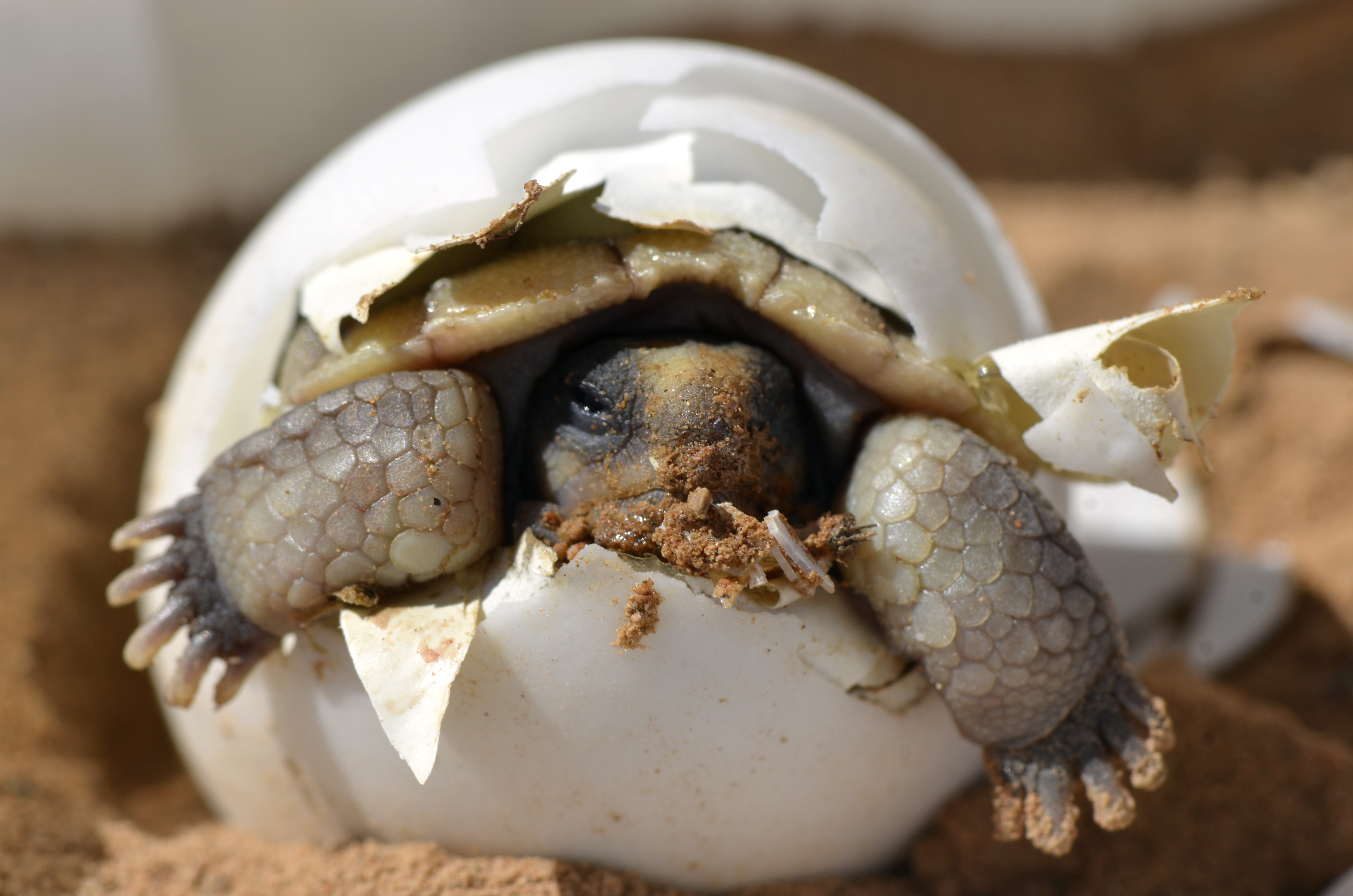 Baby Desert Tortoise — Here's your "awwwwwwww, so cute!" moment for the day...nothing tops this one. Here we see a a desert tortoise (Gopherus agassizii) hatching from its egg, as photographed by one of our USGS scientists at the Western Ecological Research Center. USGS studies the life history and ecology of the desert tortoise, which is a federally listed threatened species only found in the Mojave Desert. Young tortoises are especially prone to predators like dogs and ravens, whose numbers can increase around areas of human activity and structures. Adult tortoises can be killed by car traffic, ingesting trash, and wildfires, and are affected by loss of habitat from urban and industrial development, cutting short their potential lifespan of 100 years. USGS research on desert tortoises are helping federal and state management agencies improve land use and conservation plans, and balance the recovery of this threatened species with other resource use priorities in the Mojave Desert landscape. Watch a video of a Desert Tortoise hatching at bit.ly/USGSTortoise. Photo Credit: K. Kristina Drake, USGS.